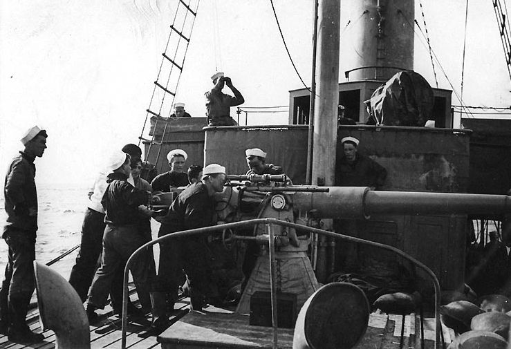 USS Rambler (SP-211) Ship's forward 3"/50 gun in action, while she was operating off Brest at Pallice, France, on convoy escort duty, 1918. The original photograph was taken by Robert W. Neeser.